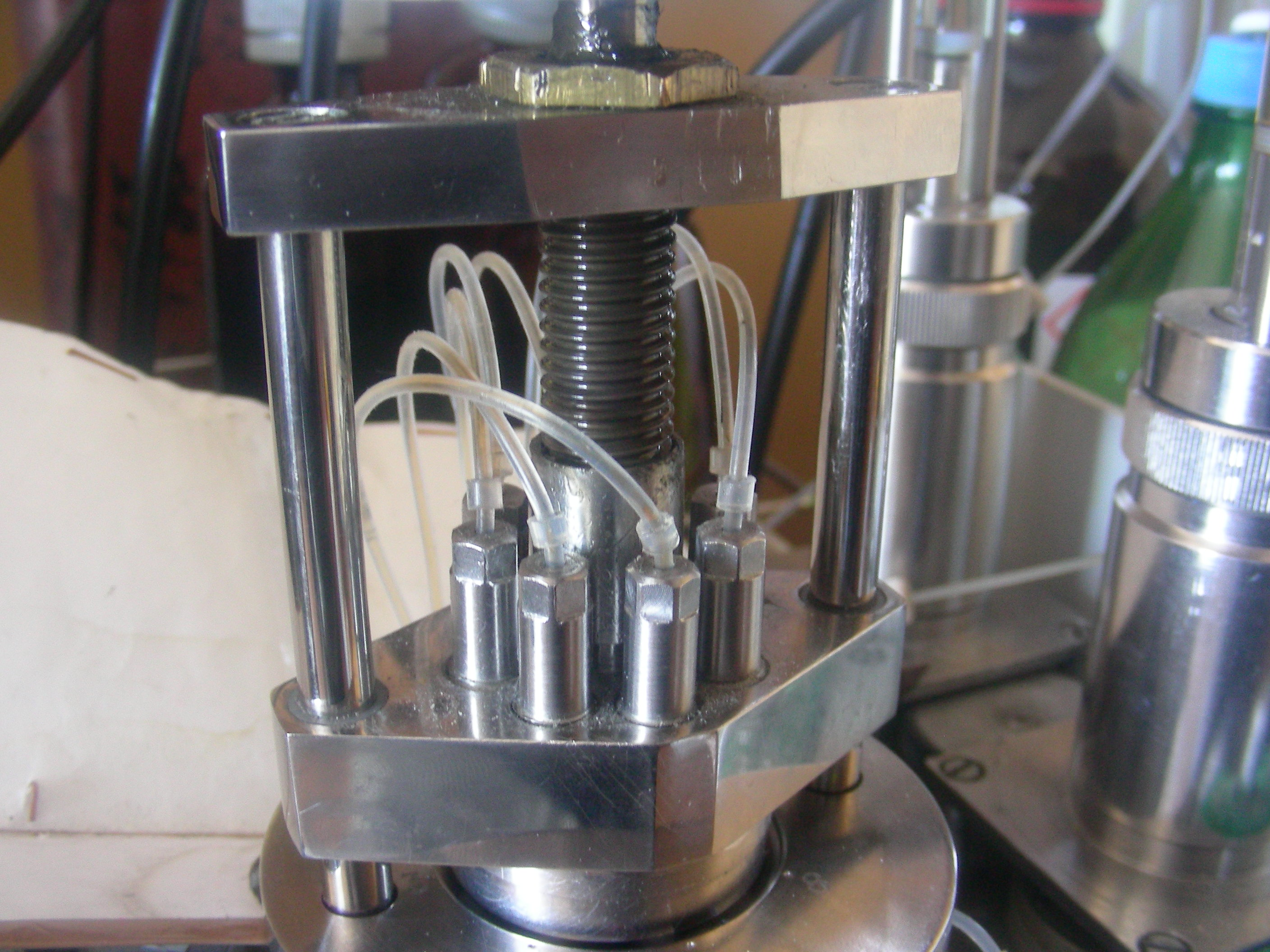 Oligonucleotide synthesizer columns